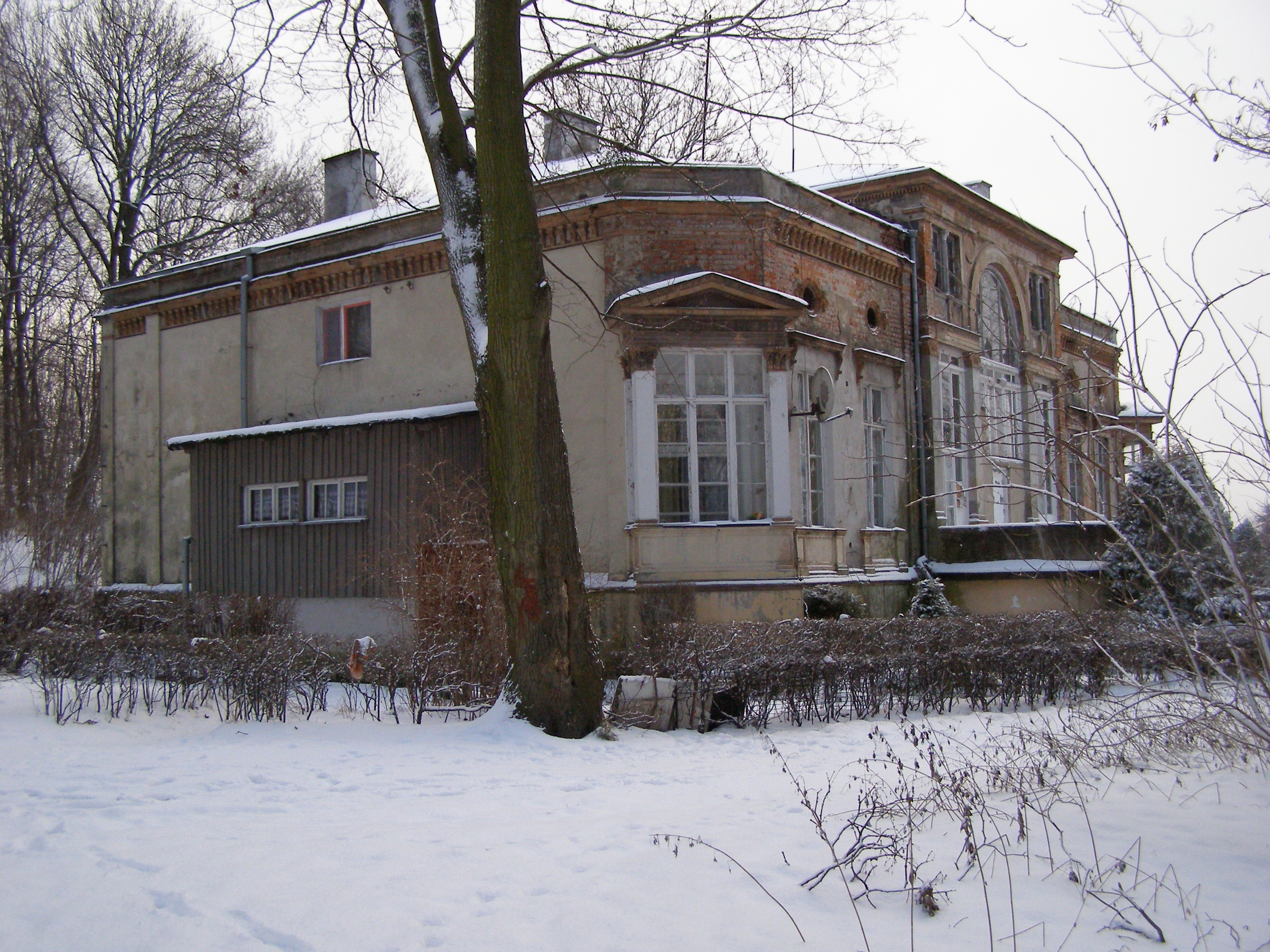 Gdańsk - Zakoniczyn manor